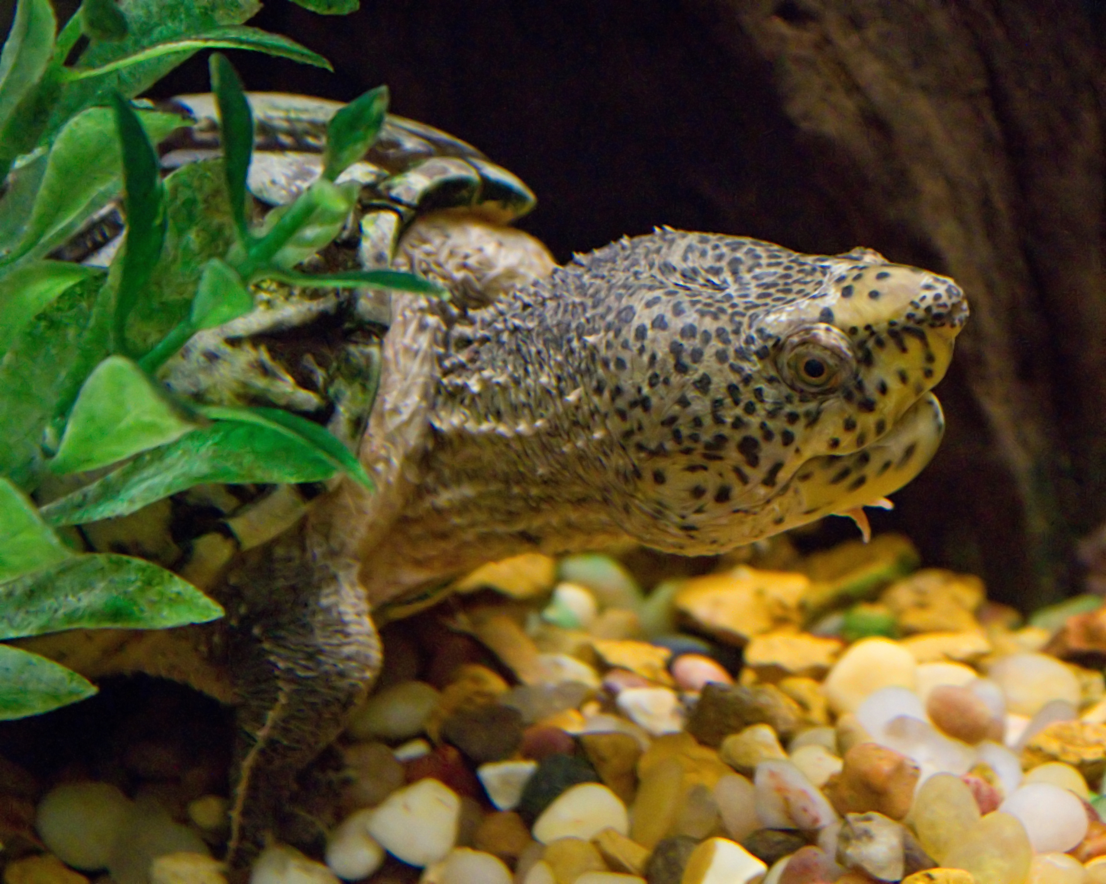 Loggerhead musk turtle at the Cincinnati Zoo